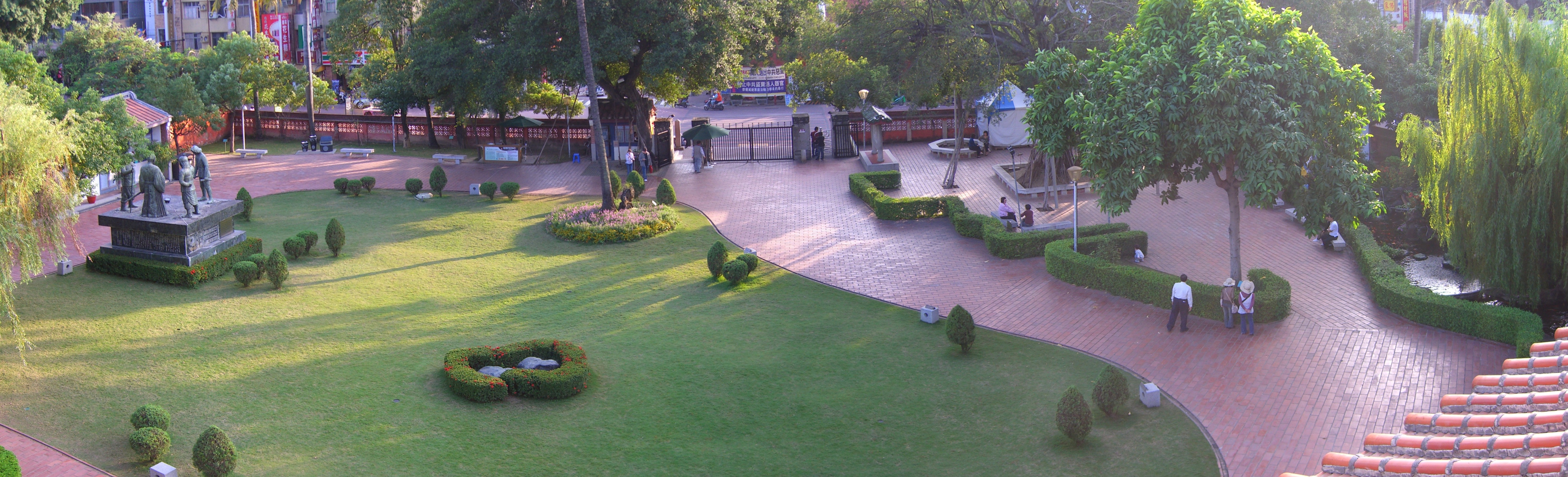 The Chihkan Tower 赤崁樓